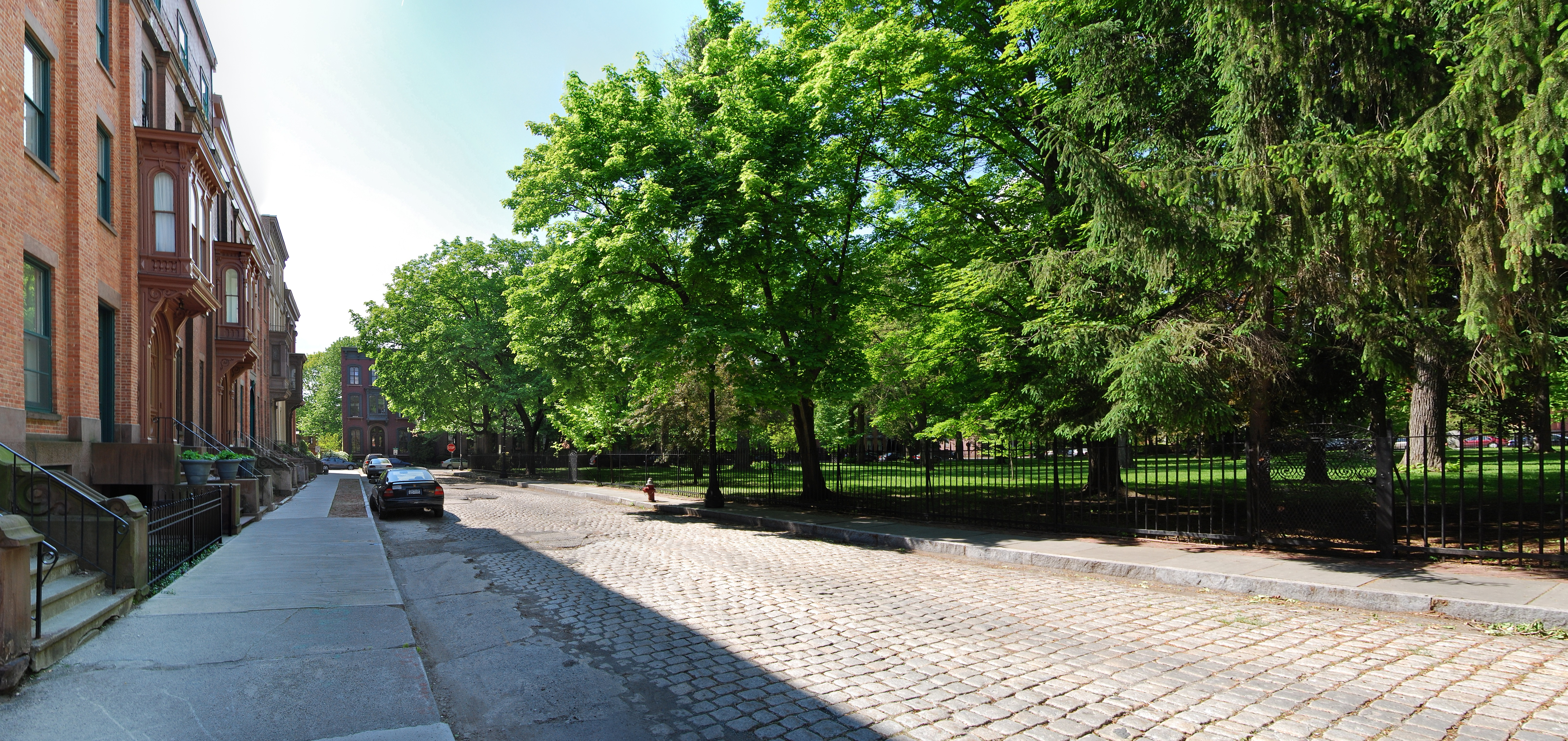 Washington Park and surrounding brownstones in Troy, New York, United States